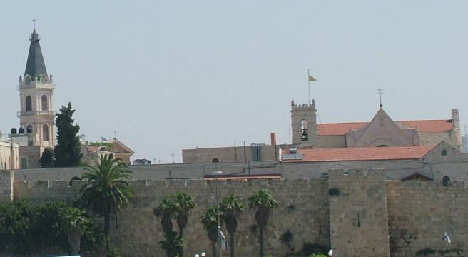 Churches in Jerusalem, left St. Saviour (black spire, salmon-coloured gable) and Holy Name Concathedral (right, tower and gable)